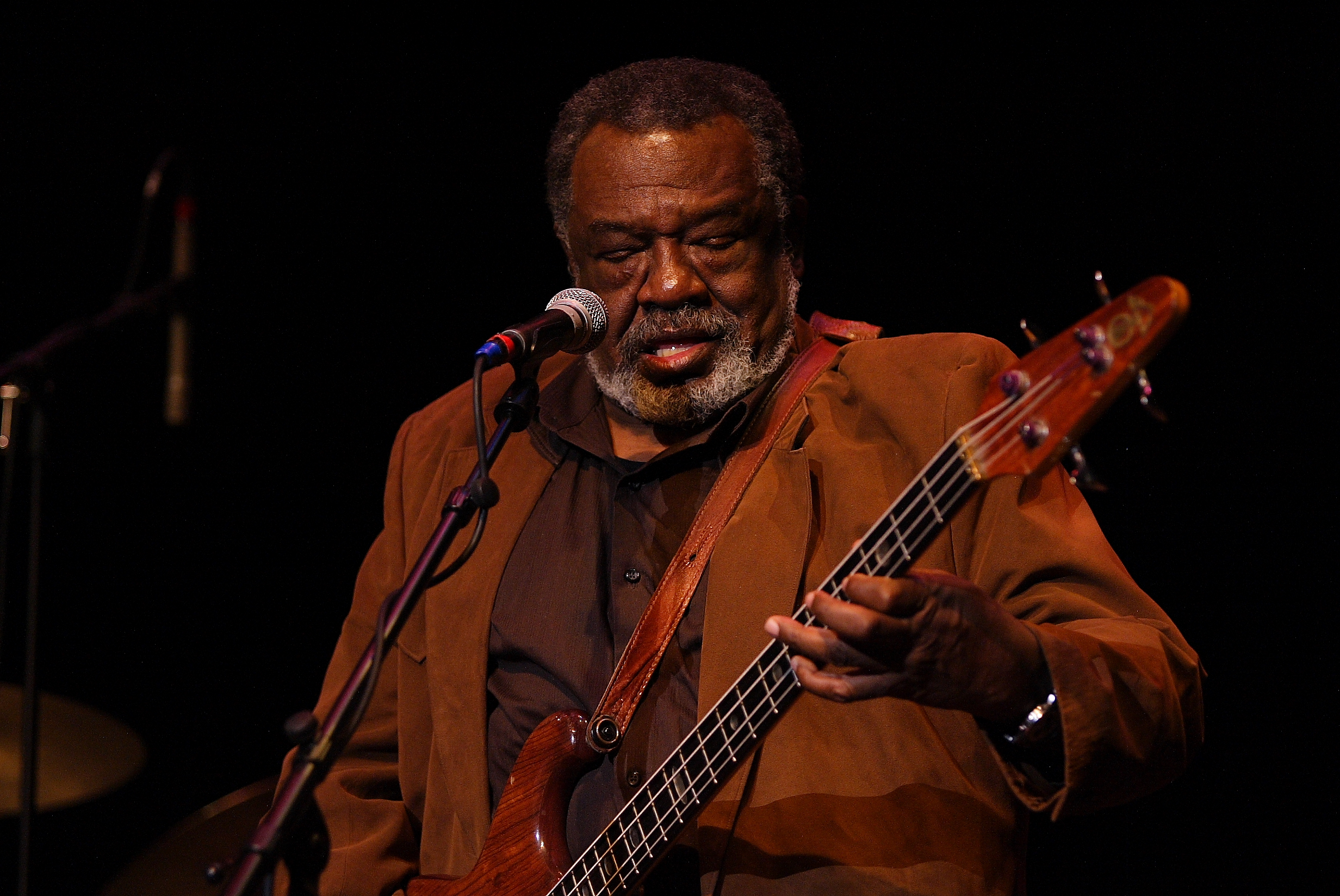 Sherman Holmes, bassist with the Holmes Brothers Band, Wilmington, Delaware, November 14, 2009